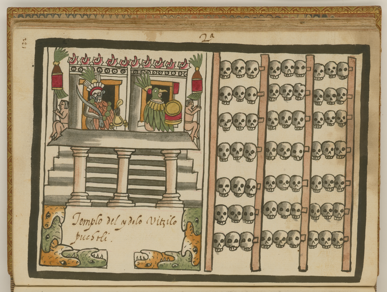 The Tovar Codex, attributed to the 16th-century Mexican Jesuit Juan de Tovar, contains detailed information about the rites and ceremonies of the Aztecs (also known as Mexica). The codex is illustrated with 51 full-page paintings in watercolor. Strongly influenced by pre-contact pictographic manuscripts, the paintings are of exceptional artistic quality. The manuscript is divided into three sections. The first section is a history of the travels of the Aztecs prior to the arrival of the Spanish. The second section, an illustrated history of the Aztecs, forms the main body of the manuscript. The third section contains the Tovar calendar. This illustration, from the second section, shows (at left) a temple or pyramid surmounted by the images of two gods flanked by native Mexicans. On the temple is an image of Huitzilopochtli on the right, and an image of Tlaloc holding a turquoise serpent is on the left. The temple is surrounded by a wall of serpents swallowing one another's heads. At right is a tzompantli (Aztec skull rack). Huitzilopochtli, whose name means "Blue hummingbird on the left," was the Aztec god of the sun and war. The xiuhcoatl (turquoise or fire serpent) was his mystical weapon. Tlaloc, the god of rain and agriculture, was of pre-Aztec, or Toltec, origin. A coatepantli (wall made of sculpted serpents) often surrounds Aztec temples. The tzompantli would hold the skulls of sacrificial victims. The great temple at Tenochtitlan was surmounted by two sanctuaries—the one on the left dedicated to Tlaloc, the one on the right to Huitzilopochtli. Aztec gods; Aztecs; Codex; Indians of Mexico; Indigenous peoples; Mesoamerica; Temples; Tovar Codex